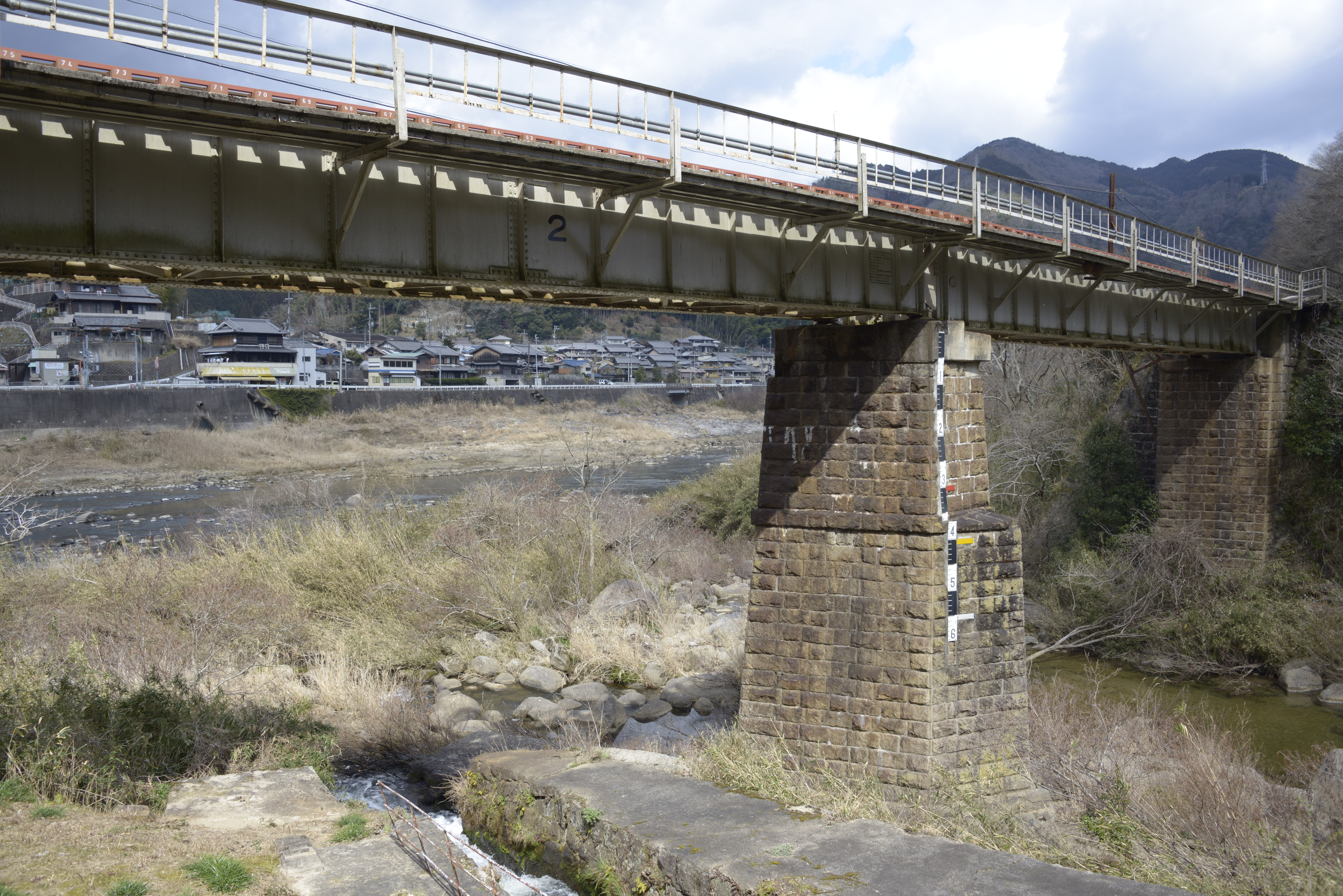 kasagi,kyoto